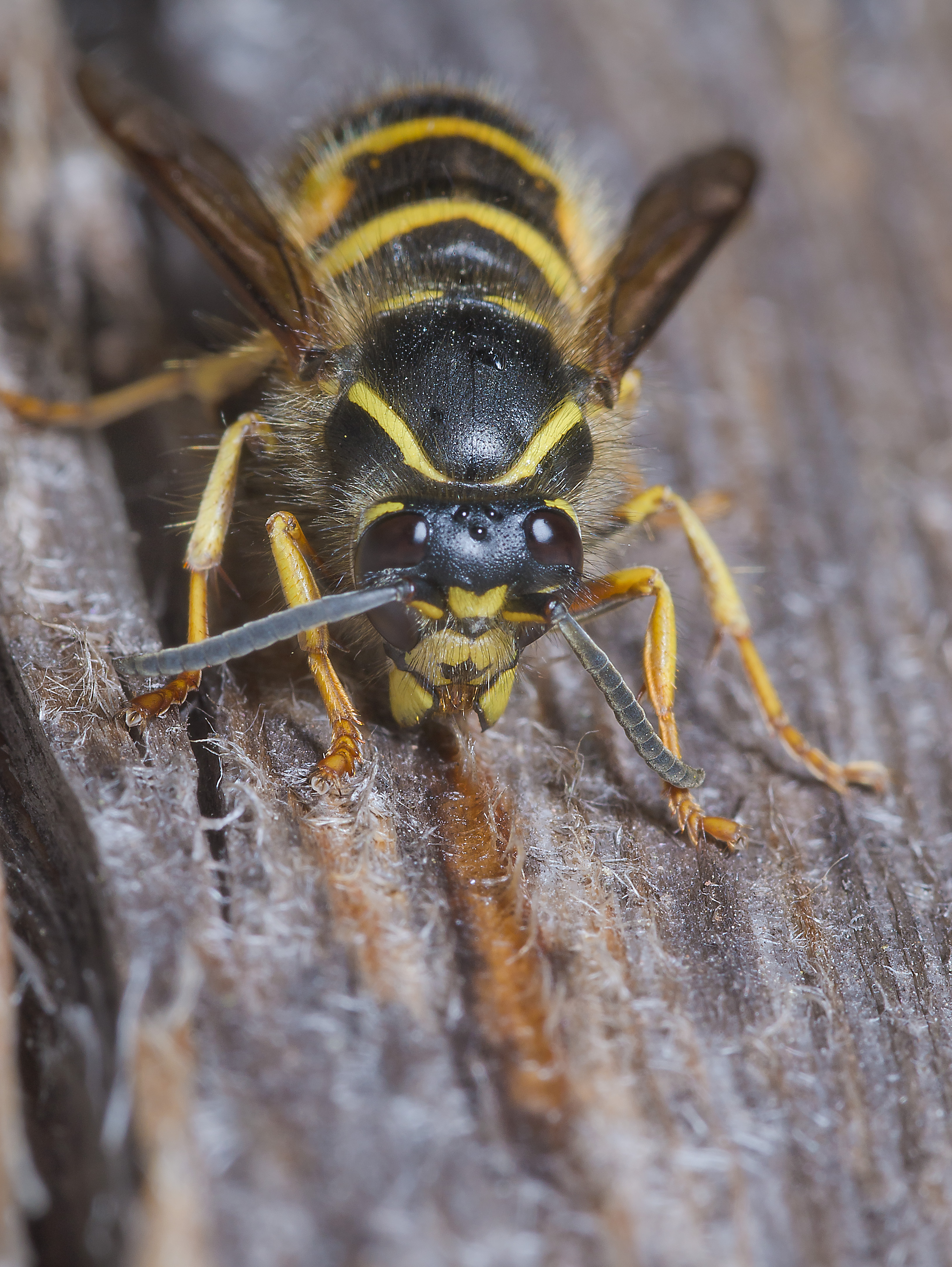 Saxon wasp, rasping wood for building its nest. Image taken in Stuttgart.